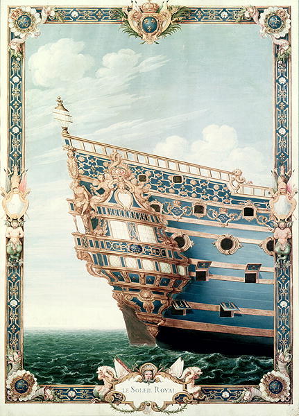 Painting of the stern of the french warship Soleil Royal (1670